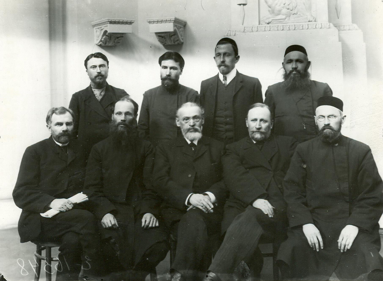 The members of the second Russian State Duma from Kazan Governorate, 1907.